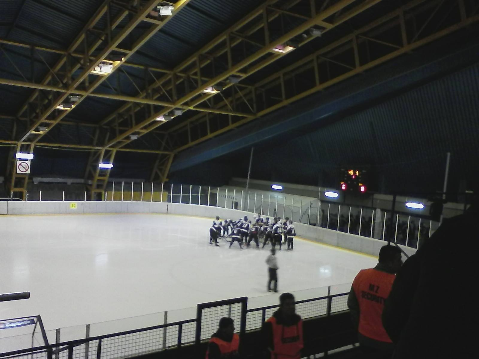 HK Partizan Српски (ћирилица): Хокејаши Партизана